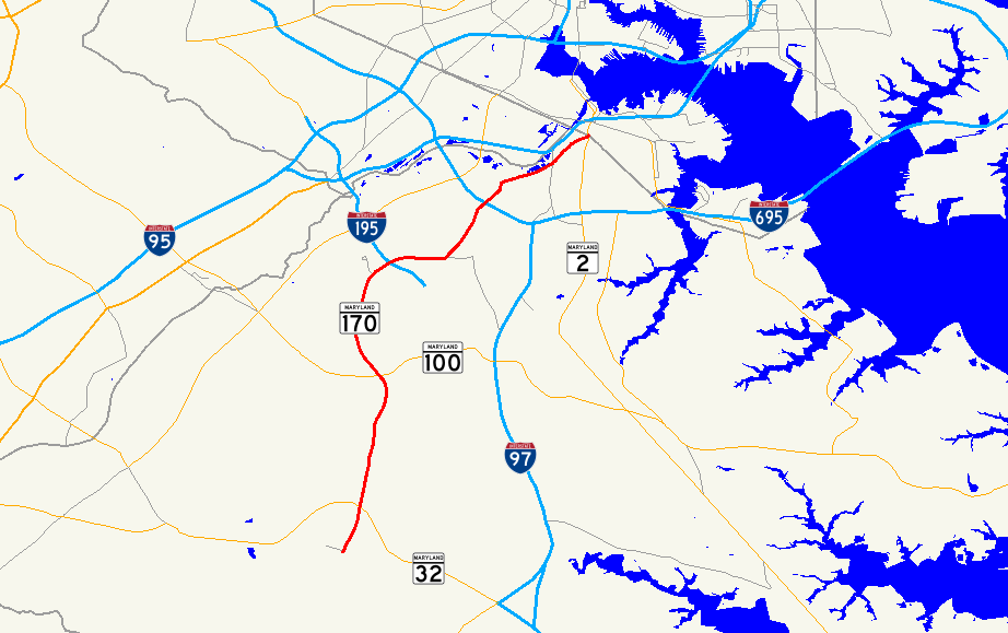 Map of Maryland Route 170